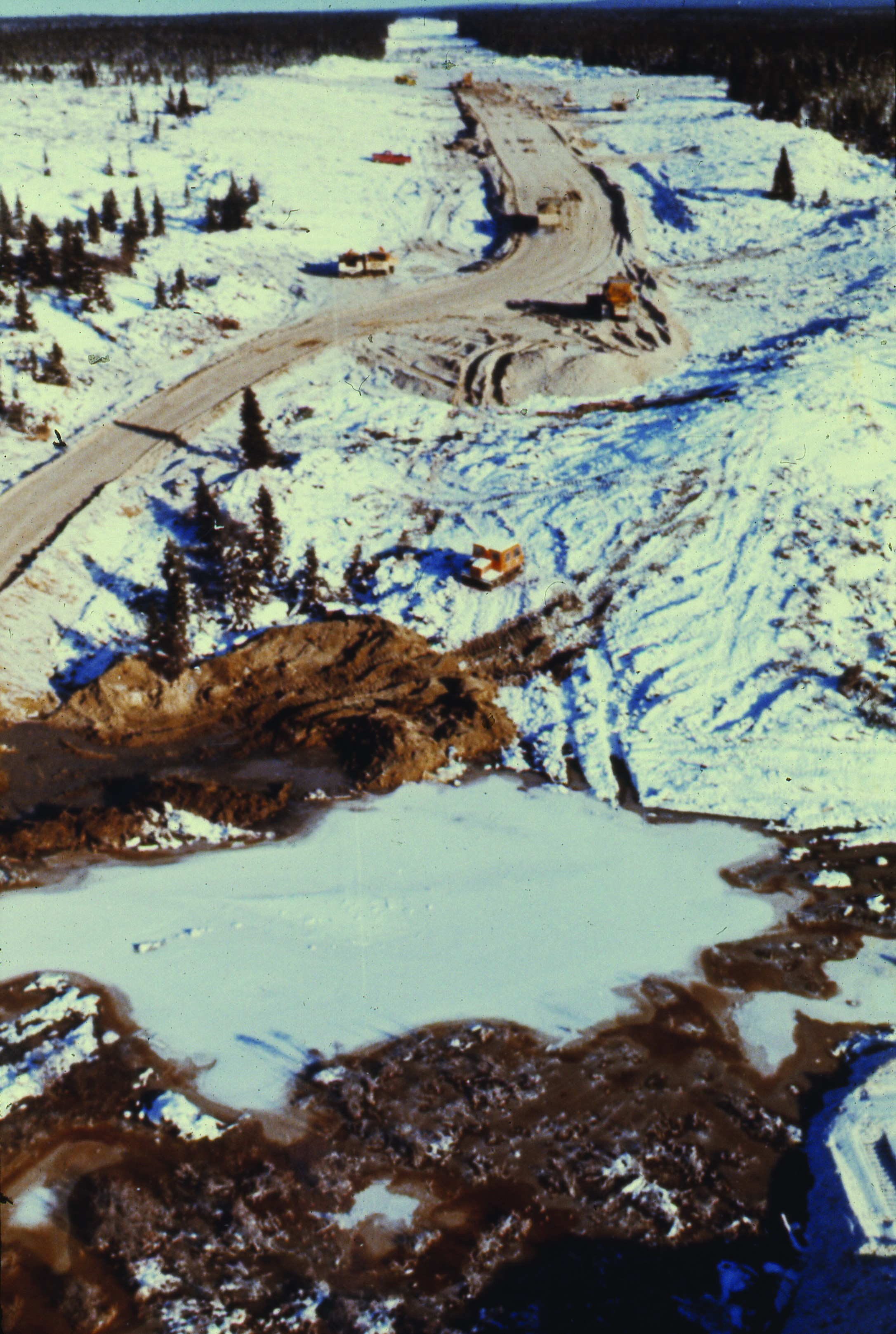 Building of James Bay Access Road, 1972